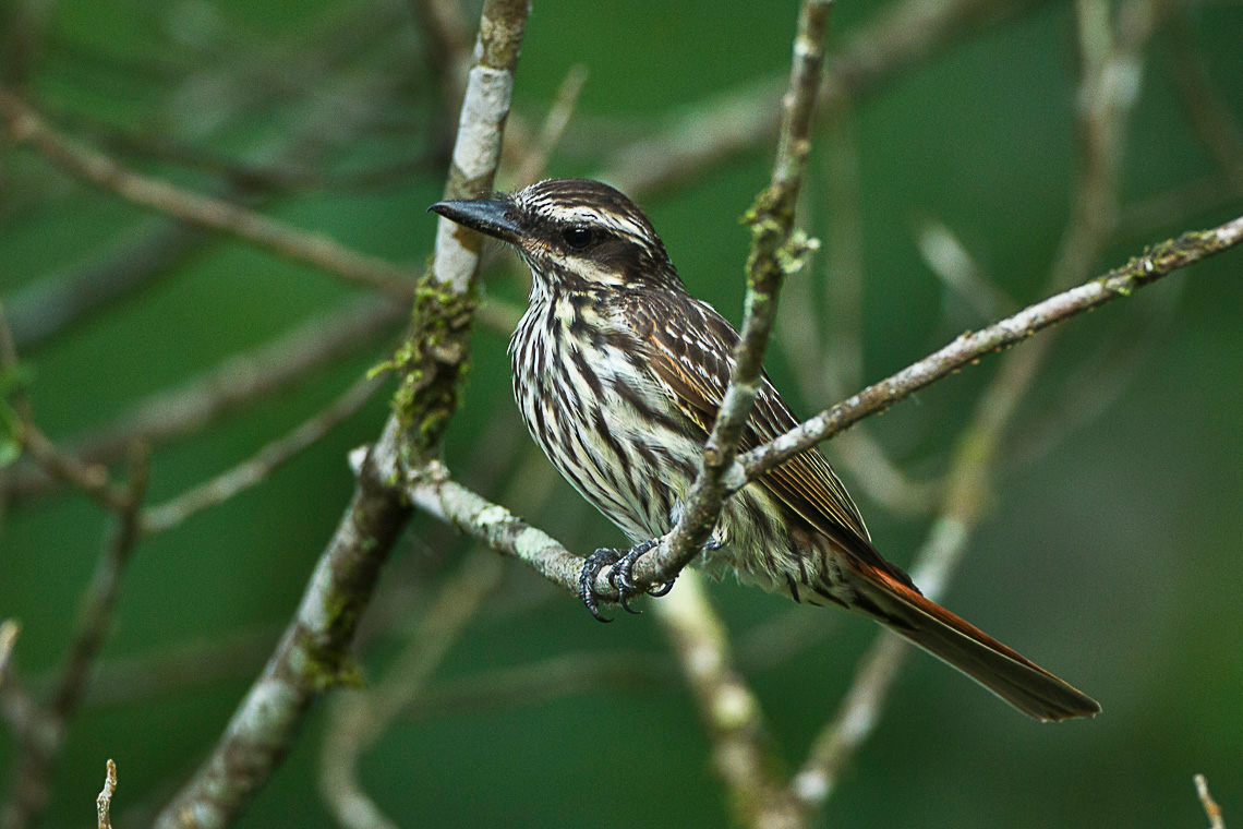 Streaked Flycatcher - Intervales - Brazil_S4E9539